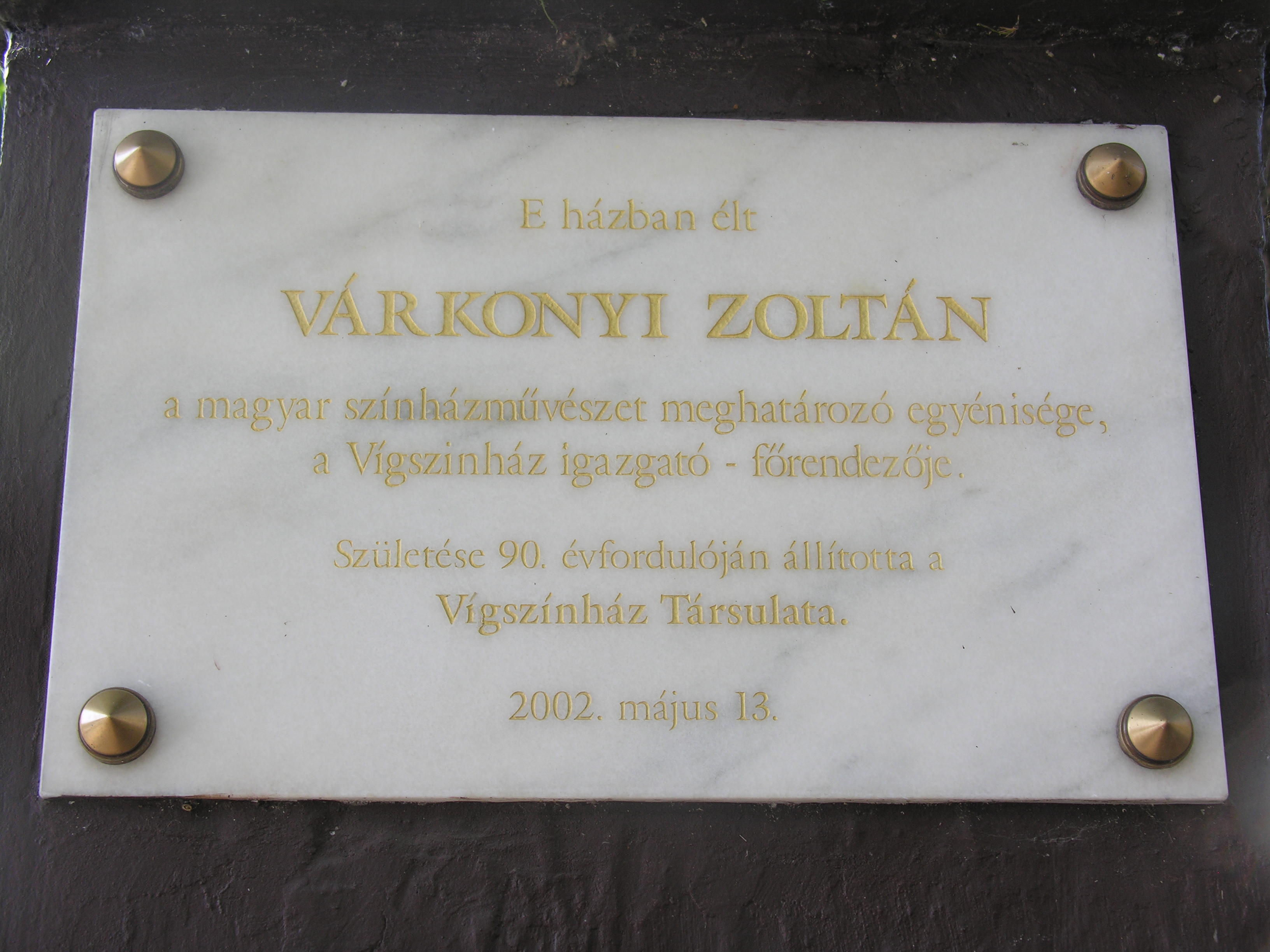 Commemorative plaque of Zoltán Várkonyi in Budapest District II, Nagyajtai Street No 10